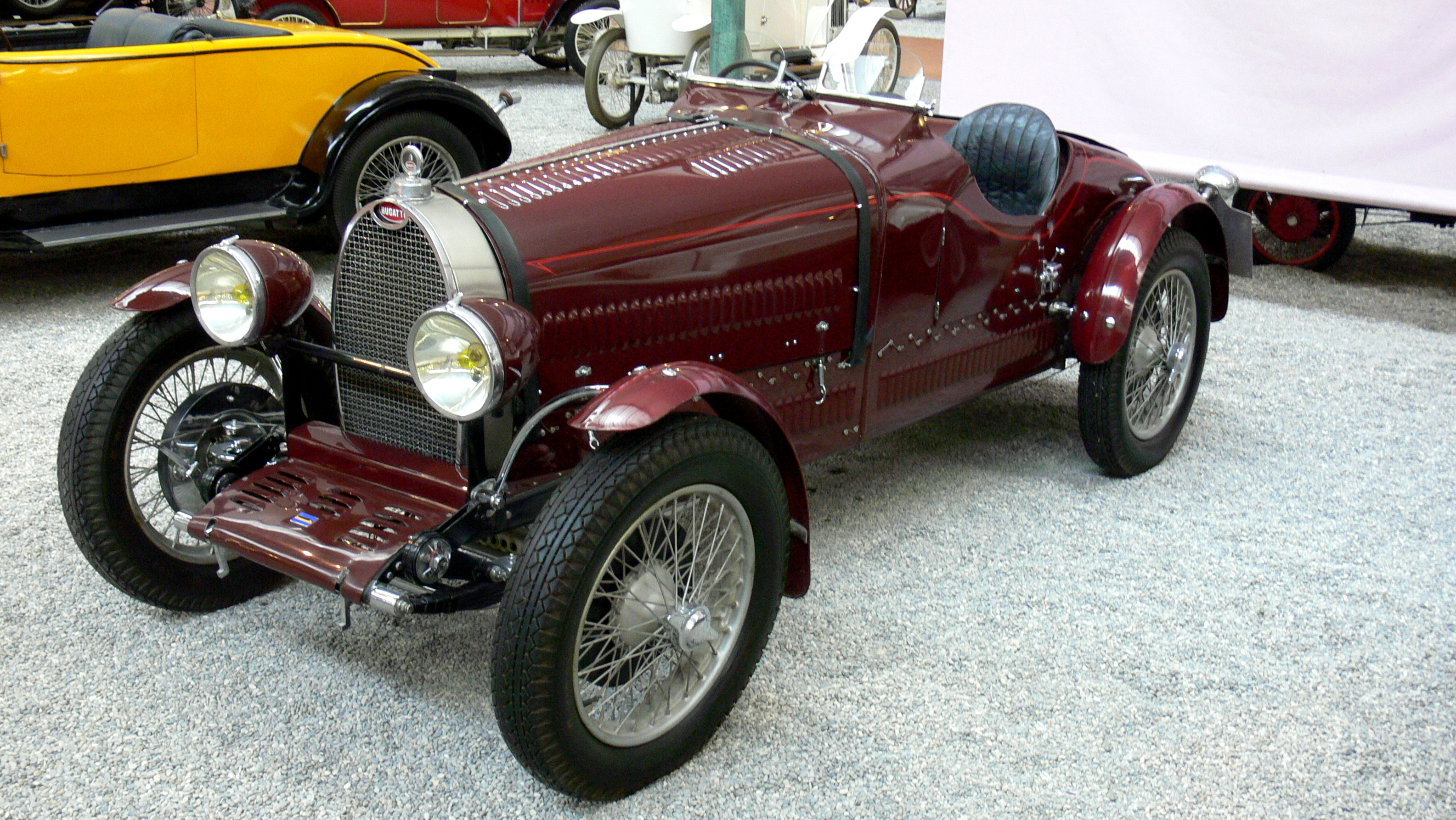 Bugatti Biplace Sport Type 38 (1927) in the Musée National de l'Automobile (Muhlhouse)